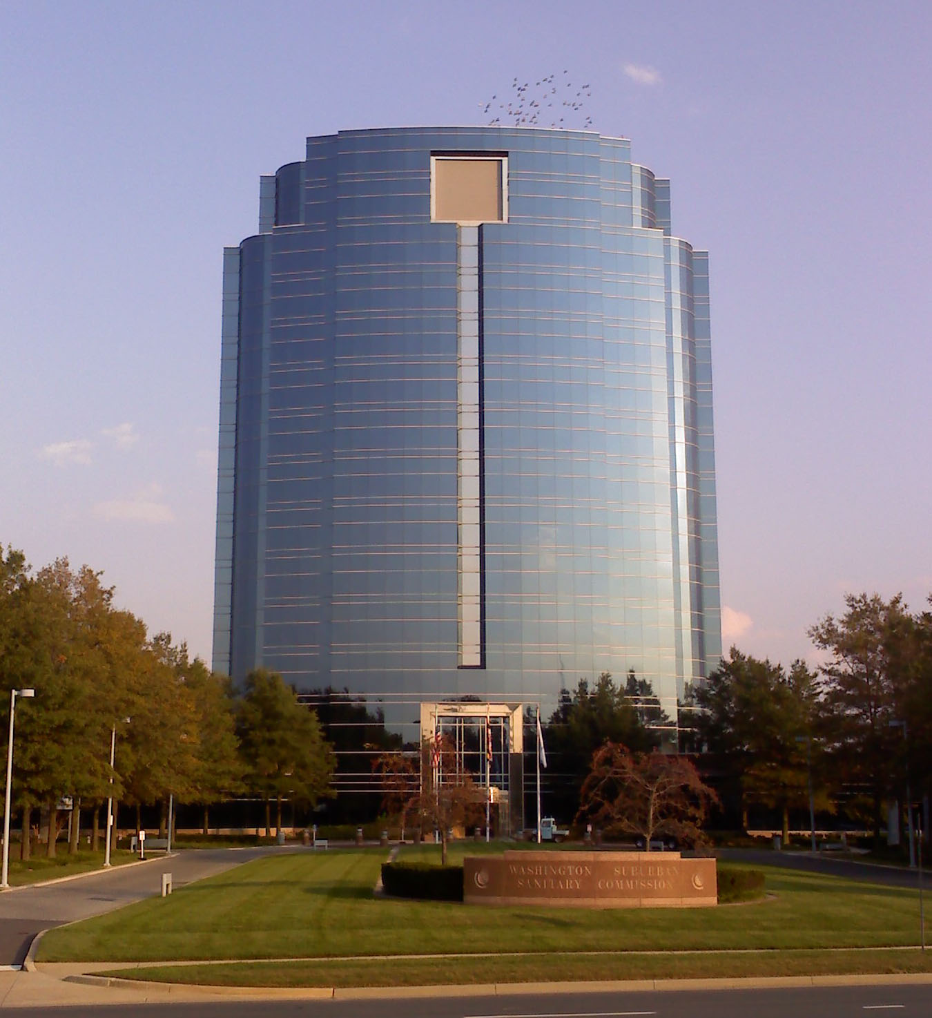 Photo of Washington Suburban Sanitary Commission building in Laurel, Maryland.